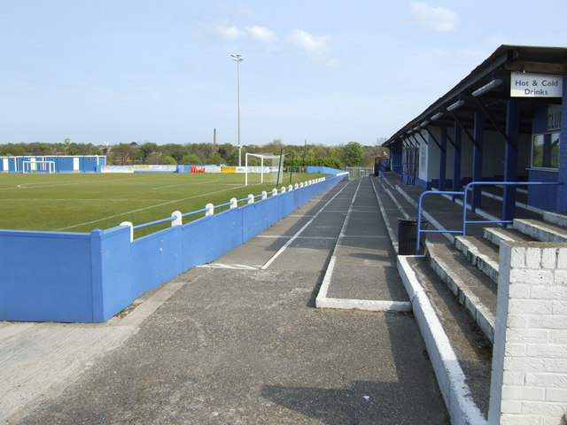 Main Stand, Margate Football Club